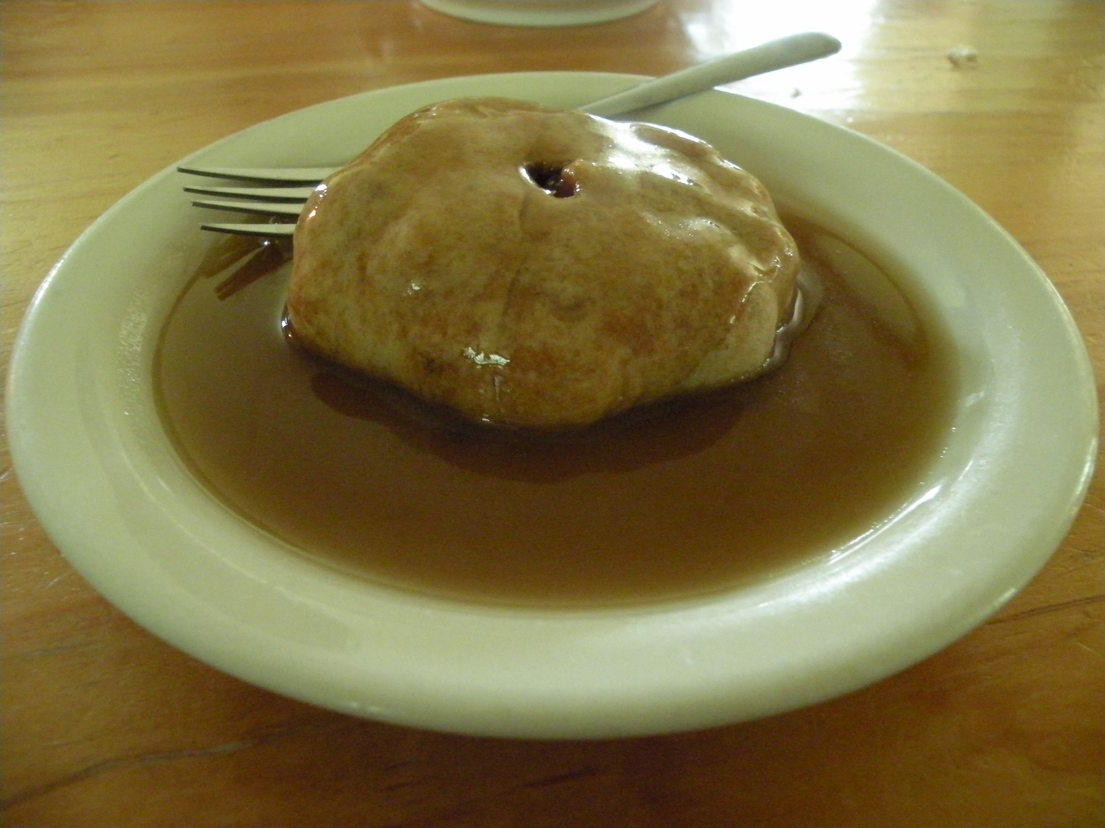 A poutine à trous, at the La table des ancêtres restaurant of the Acadian historic settlement.